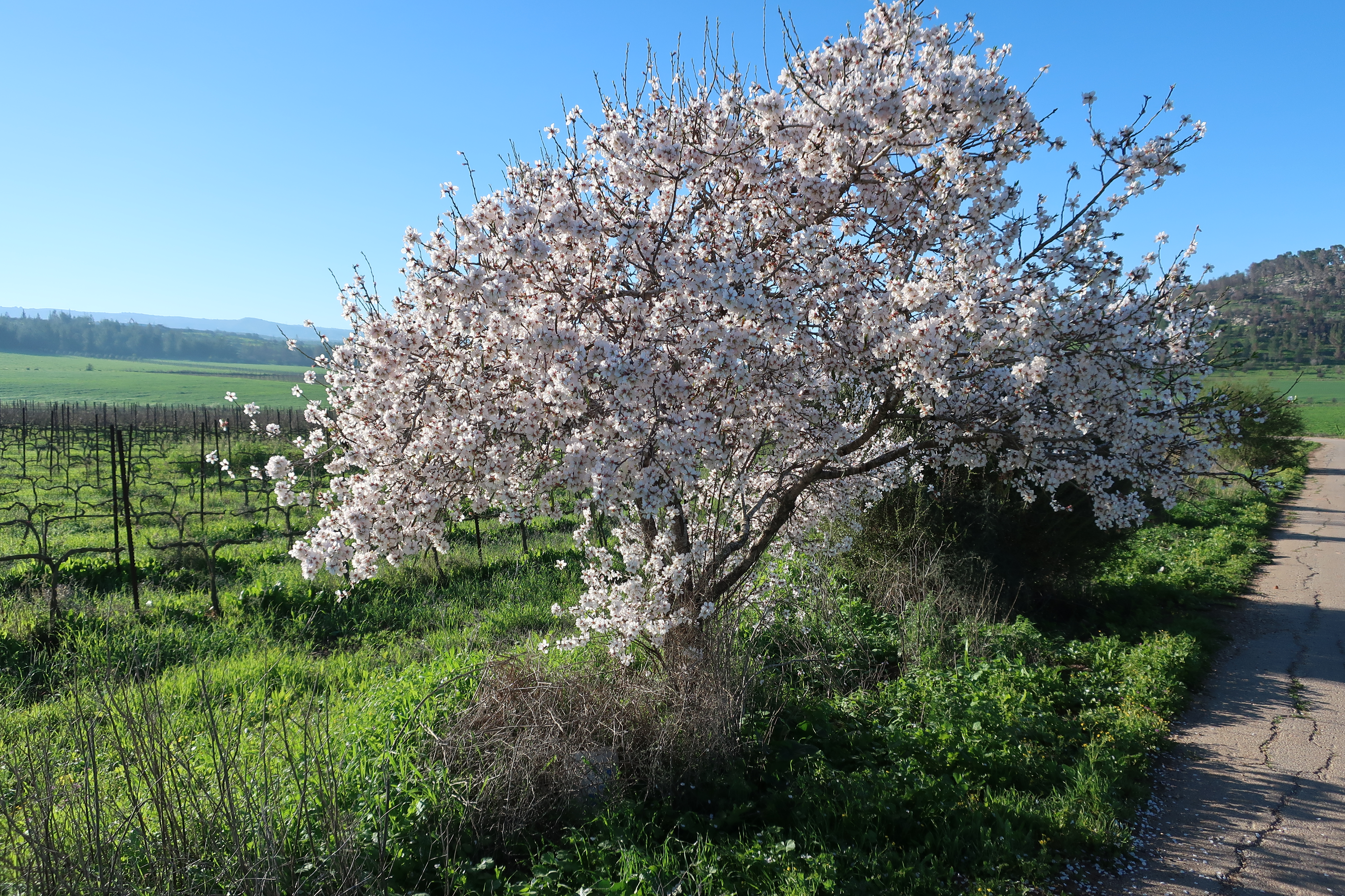 Almond tree growing in the Elah valley, near Neve Michael